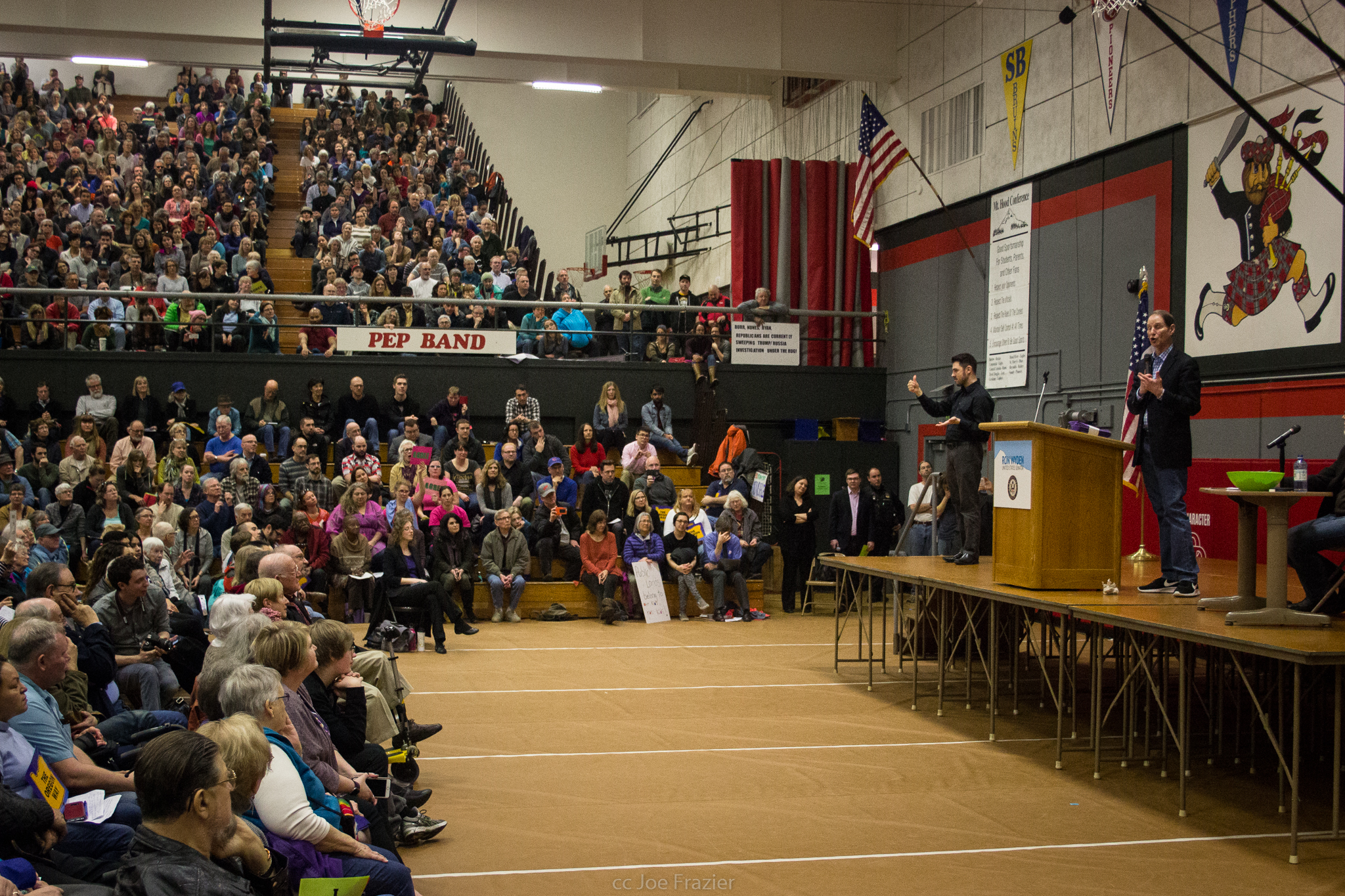 Town Hall - Ron Wyden, Multnomah County Feb 25, 2017 David Douglas H.S., Portland, OR